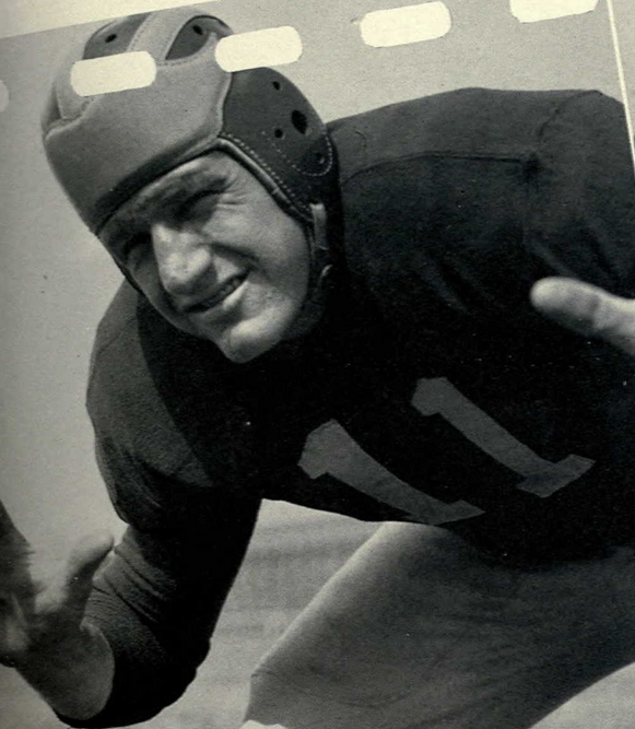 Michigan team captain Alvin Wistert of the 1949 Michigan Wolverines football team, from University of Michigan yearbook